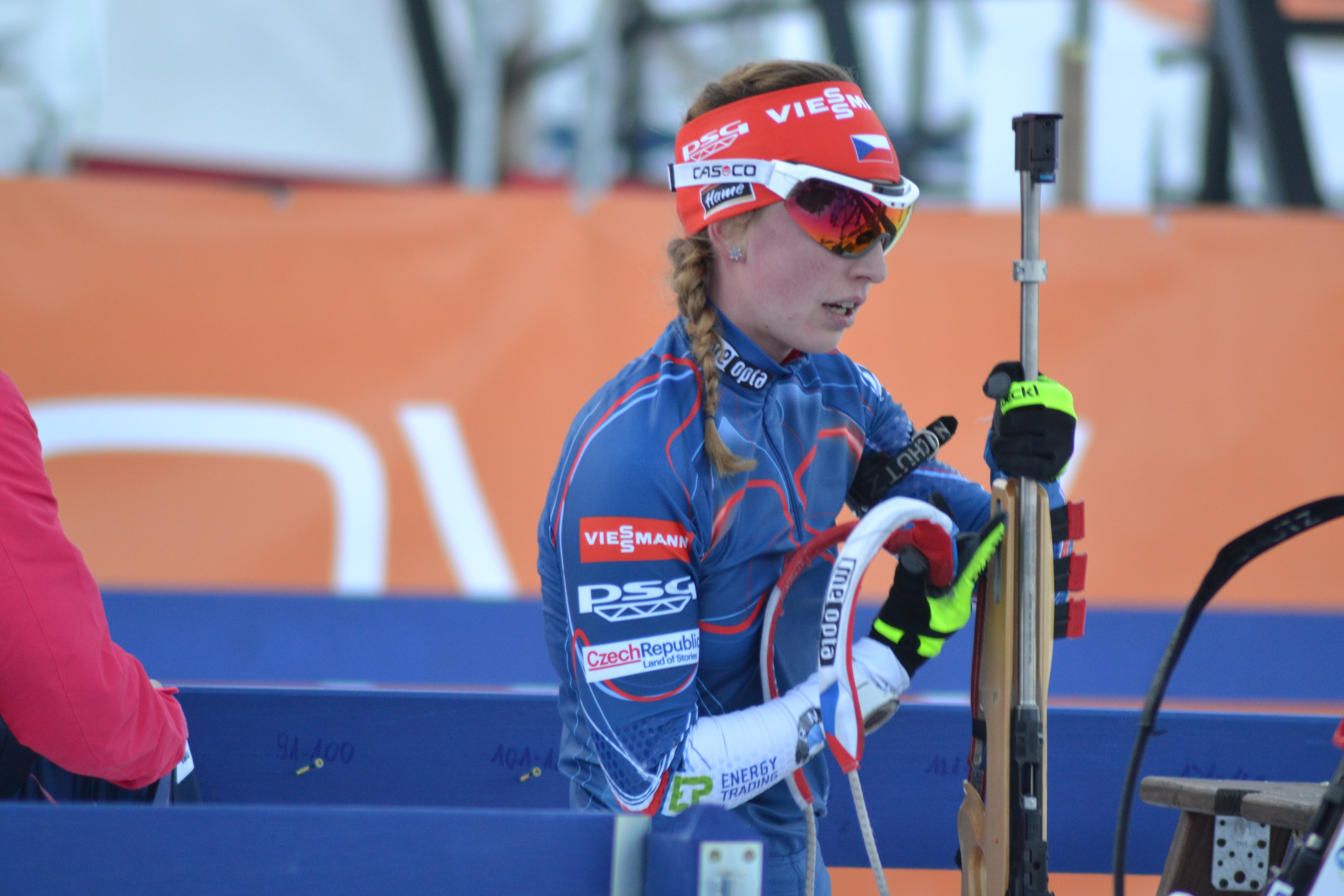 Open European Championships Biathlon 2017, Sprint Women's race, held on January 27th.